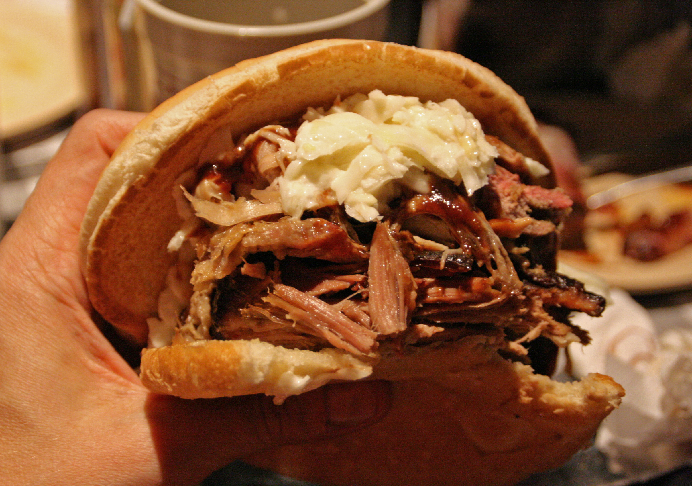 Jumbo sandwich, with slaw of course